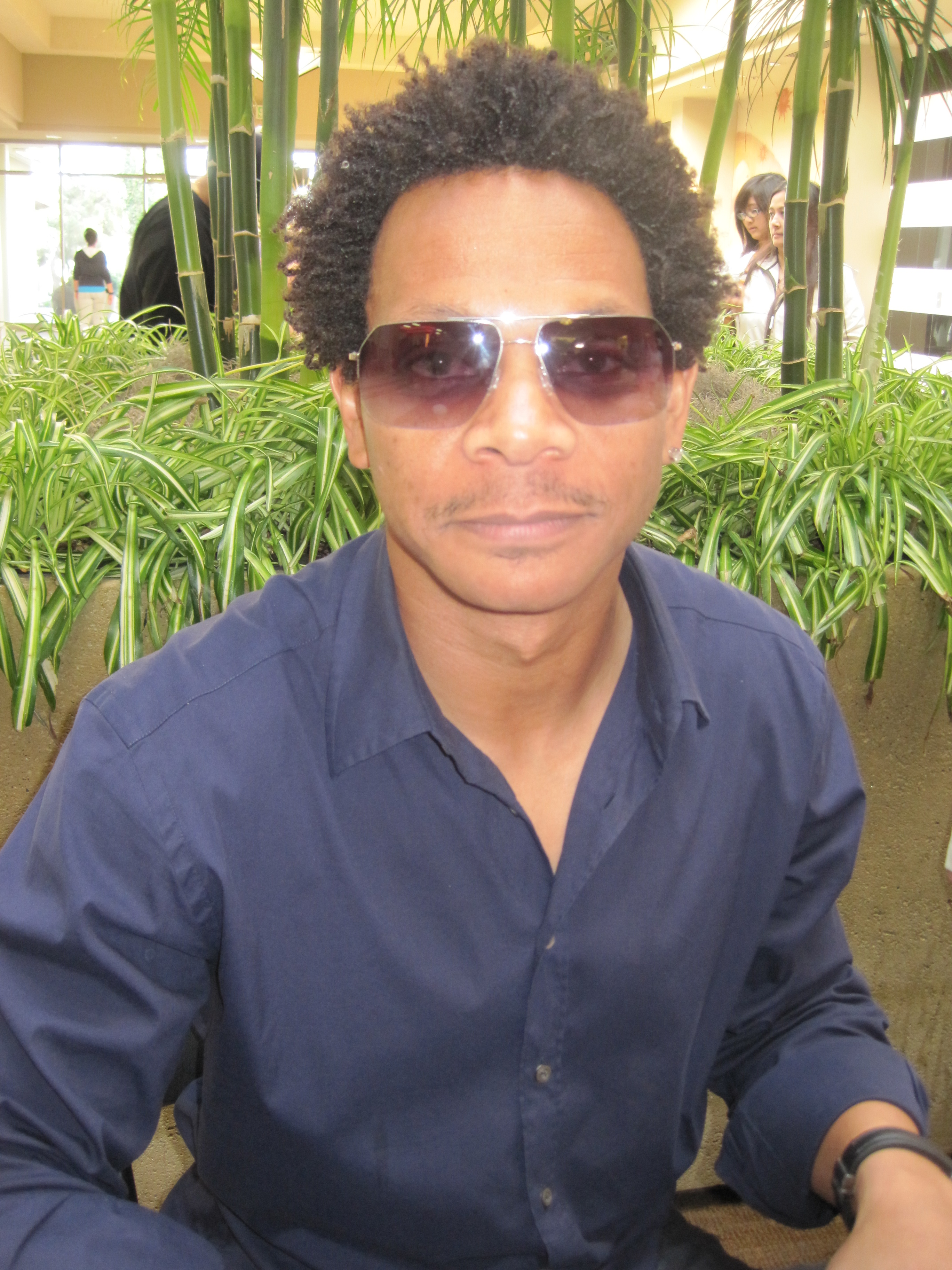 Former NFL cornerback Eric Davis signing autographs at an appearance in Serramonte Center in Daly City, California.